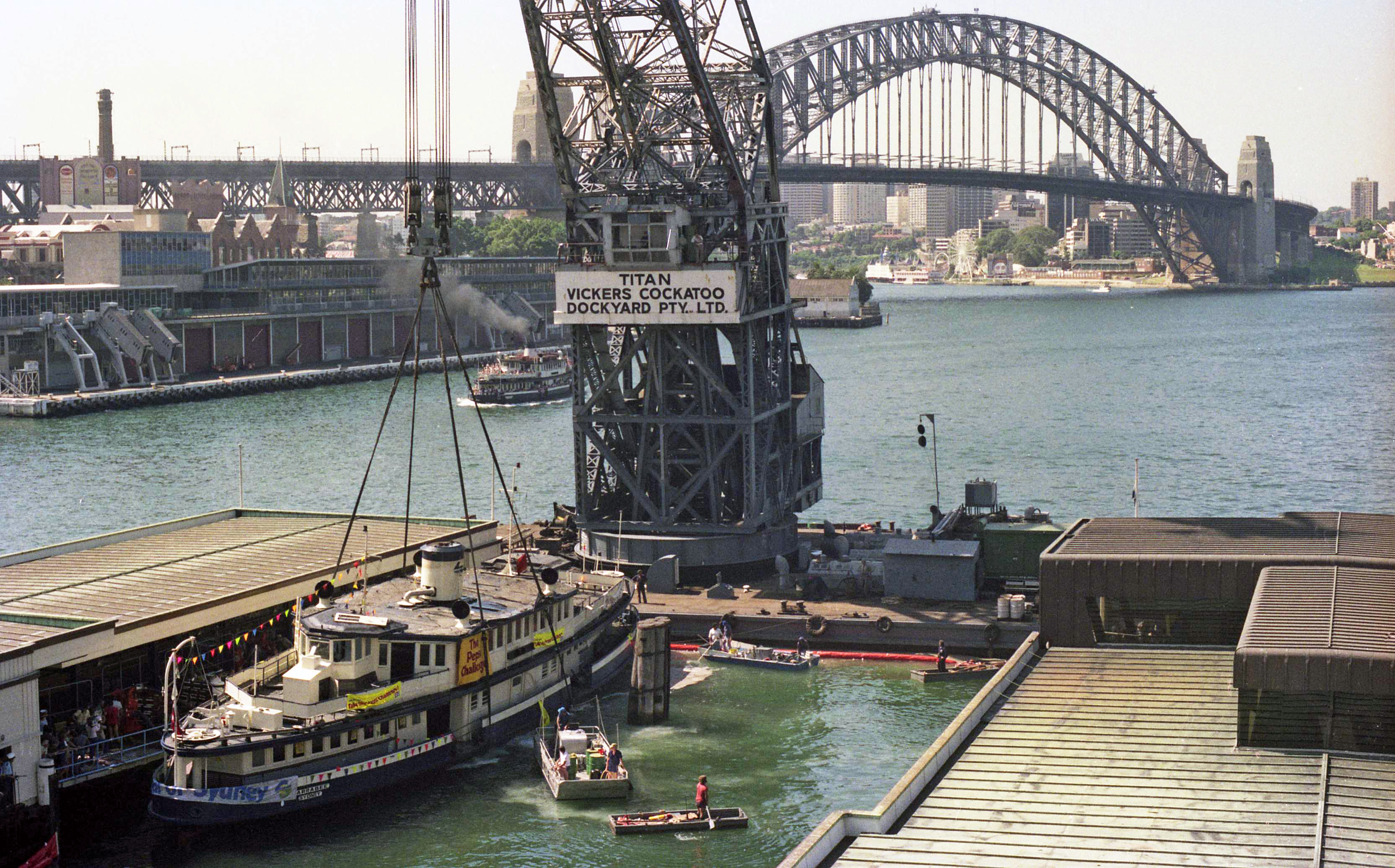 Sydney Ferry KARRABEE being refloated by Titan Crane at Circular Quay 1984 John Ward, John Ward Collection - Shipping (24/01/1984), [A-01075934]. City of Sydney Archives, accessed 07 Mar 2020